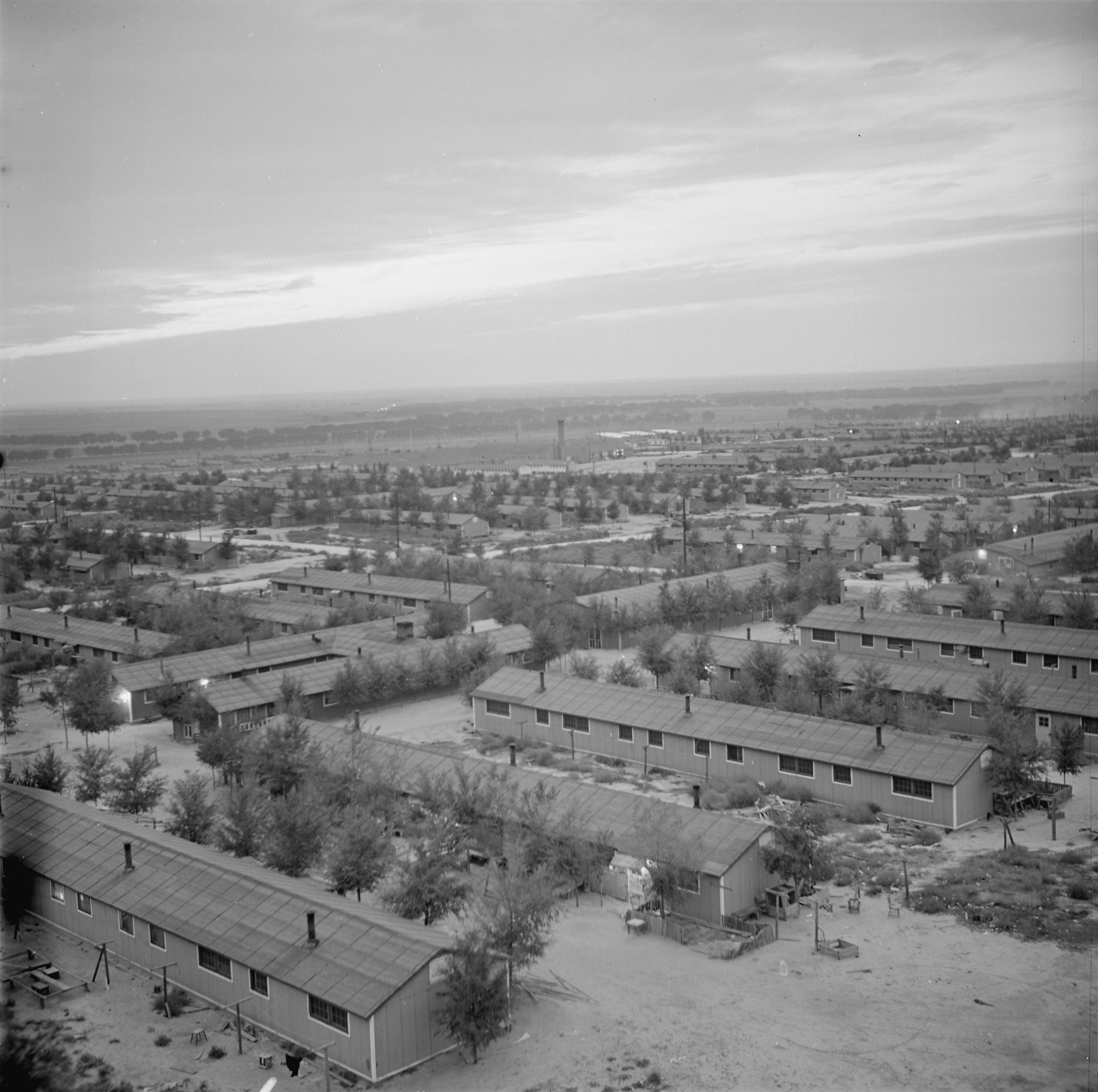 Scope and content: The full caption for this photograph reads: Granada Relocation Center, Amache, Colorado. A section of the Amache Relocation Center at Granada, Colorado as it looks today. The trees were planted by the evacuees to provide shade on the sandy, sun baked soil on which the center was erected. Temperatures of 120 and higher are not uncommon. A total of nearly 15,000 evacuees were inducted into the Granada Project, Amache, Colorado, since August 27, 1942, when the first group arrived from the Merced Assembly Center to prepare the camp for those to follow. The Relocation Center, as its name implies, was a temporary residence for those of Japanese ancestry who were transferred from their homes along the west coast under a war emergency measure of 1942. Many of the evacuees during the past three years were able to resettle and find new homes in the Middle West and eastern states. From September 1, 1945, to the closing date of October 15, 3,105 persons have gone back to their former homes or have relocated elsewhere. The last to leave the center a group of 126, left on two special coaches for Sacramento and nearby towns. At the peak of its population, Amache had 7,567 residents. 412 births were recorded and 107 deaths during the three years of its existence.